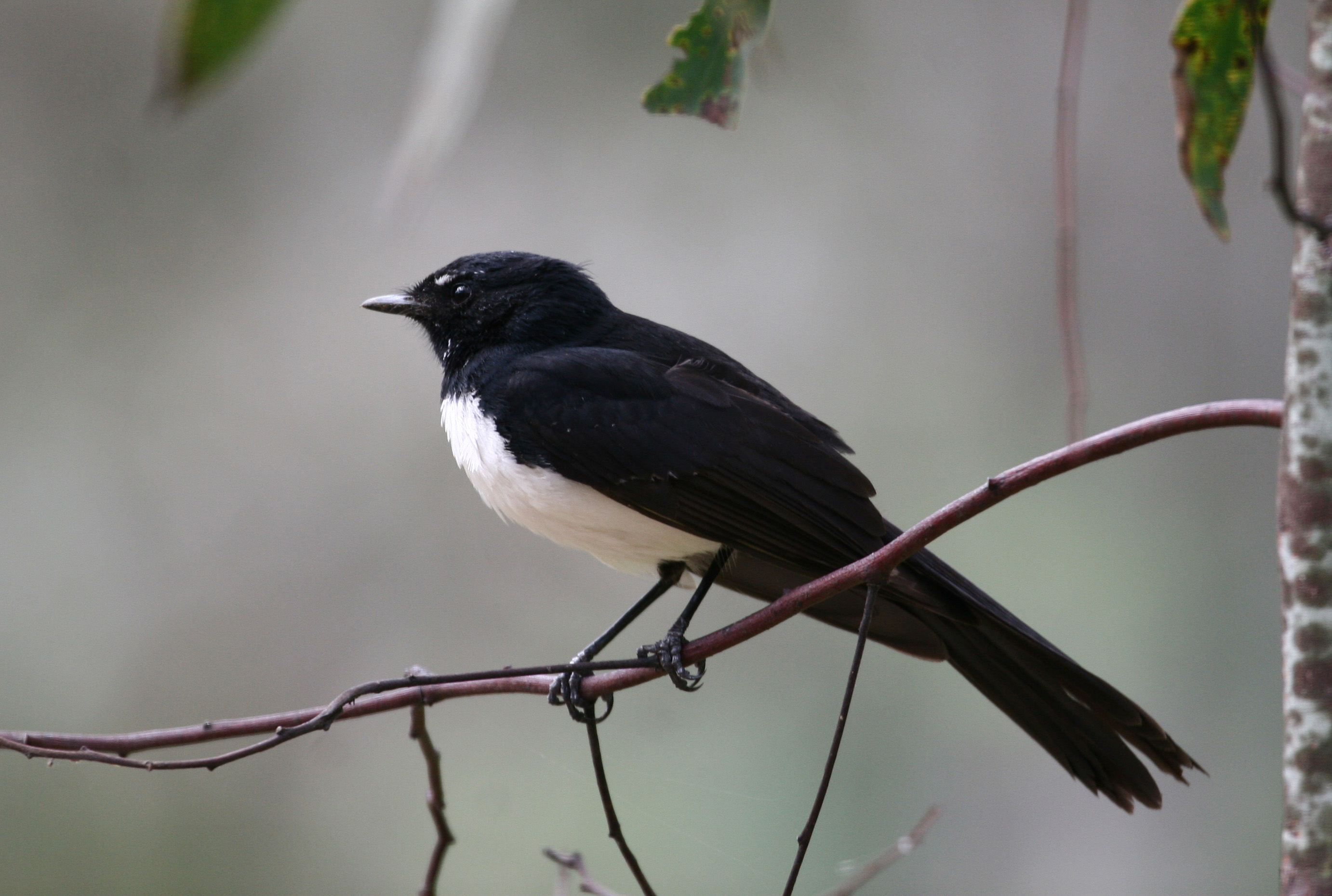 Willie-wagtail (Rhipidura leucophrys), Lilydale, Victoria